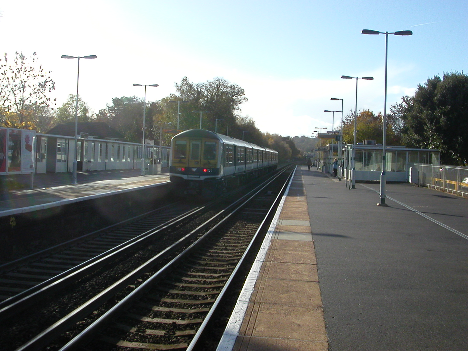 Southbound view of Hassocks railway station